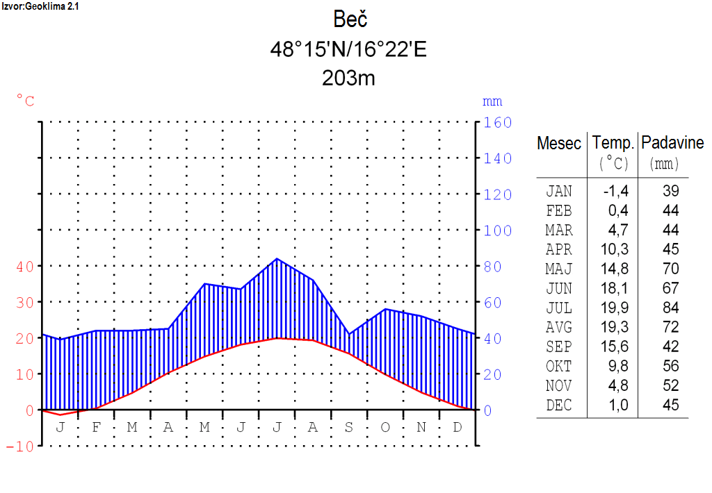 climate chart in the format by Walter and Lieth, metric, °Celsisus and millimeters, made with Geoklima 2.1